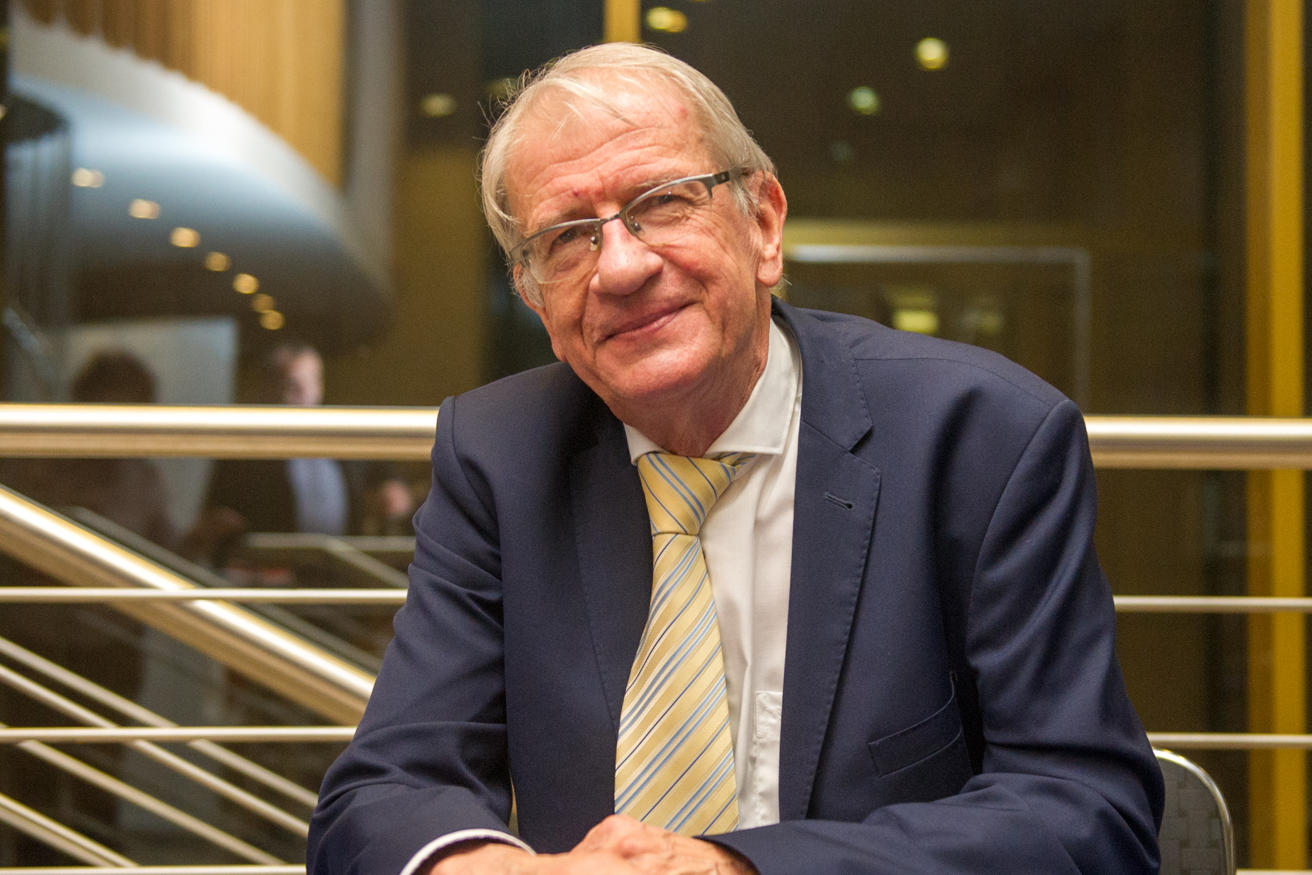 Wojciech Roszkowski during the premiere of his book "The Shattered Mirror - The Downfall of the Western Civilization" in Cracow, Poland (February 23rd, 2019).